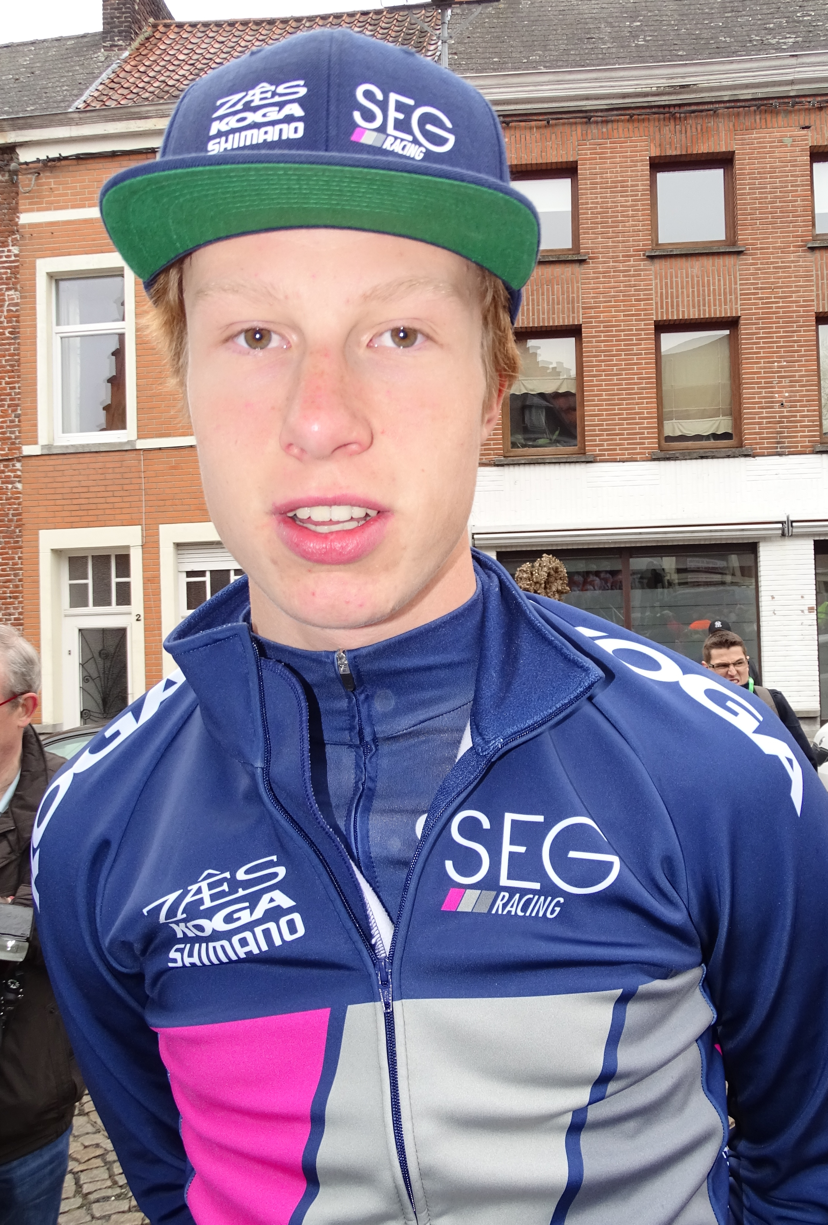 Triptyque des Monts et Châteaux 2015 Depicted person: Julius van den Berg Depicted team: SEG Racing